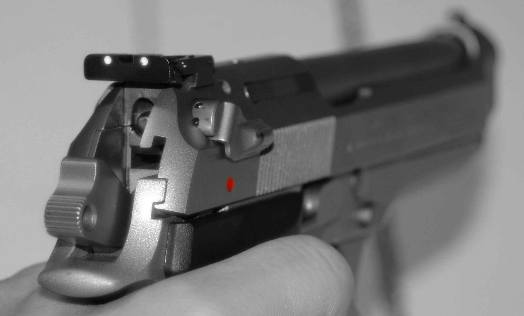 My Beretta 92FS 9mm up-close. This gun is only used for bullseye precision shooting (International Sport Shooting Federation disciplines). I'm a pistol shooting instructor affiliated with the Flemish Shooters Confederation (VSK / Bloso). More information